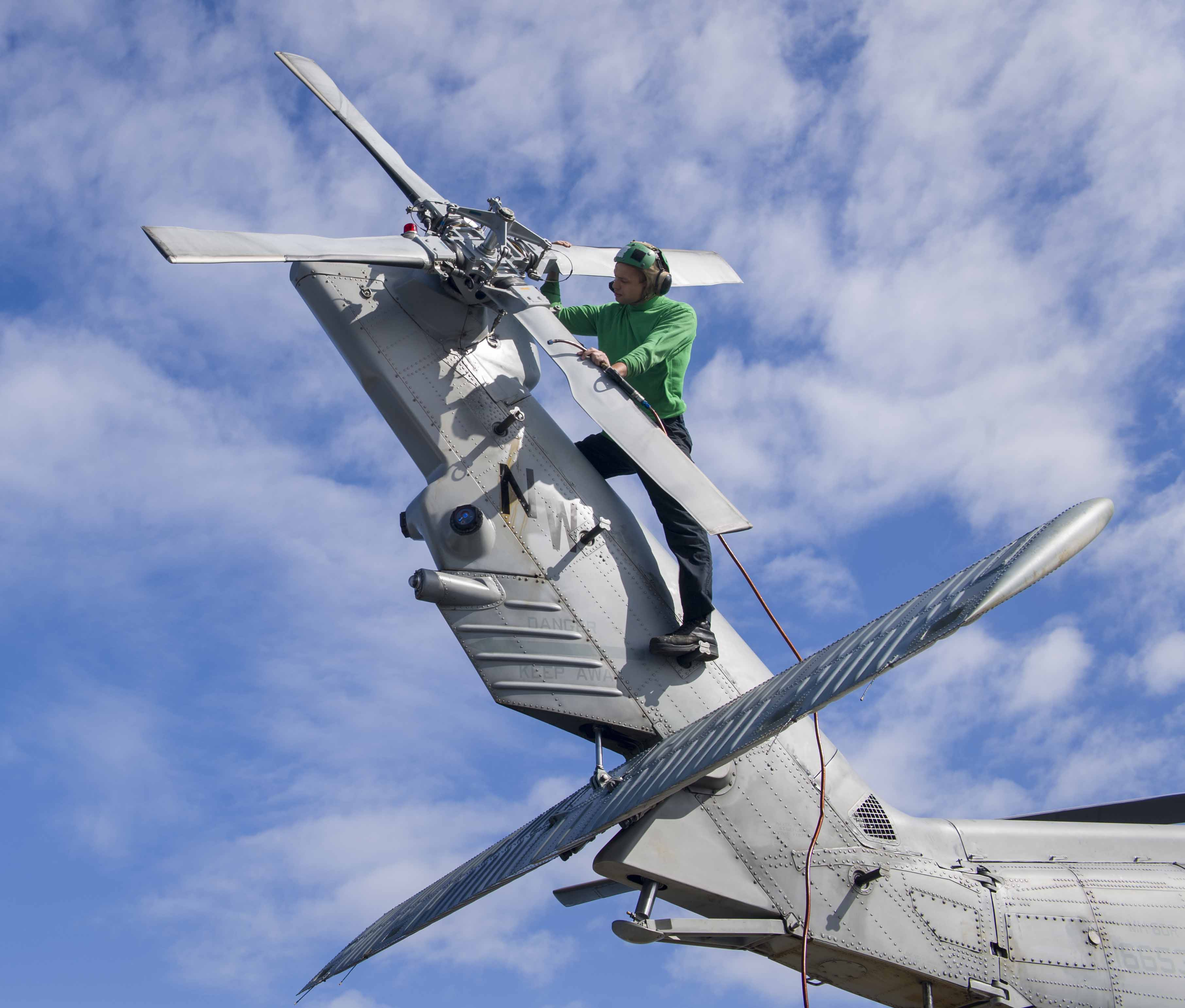 170808-N-HV059-015 SEA OF HEBRIDES (Aug. 8, 2017) Aviation Machinist's Mate 3rd Class David Montana conducts maintenance on the tail gear box of an MH-60-R Sea Hawk helicopter, attached to Helicopter Maritime Strike Squadron (HSM) 60, on the flight deck of the Ticonderoga-class guided-missile cruiser USS Leyte Gulf (CG 55), Aug. 8, 2017. Leyte Gulf is conducting naval operations in the U.S. 6th Fleet area of operations in support of U.S. national security interests in Europe. (U.S. Navy photo by Mass Communication Specialist 2nd Class Sonja Wickard/Released)